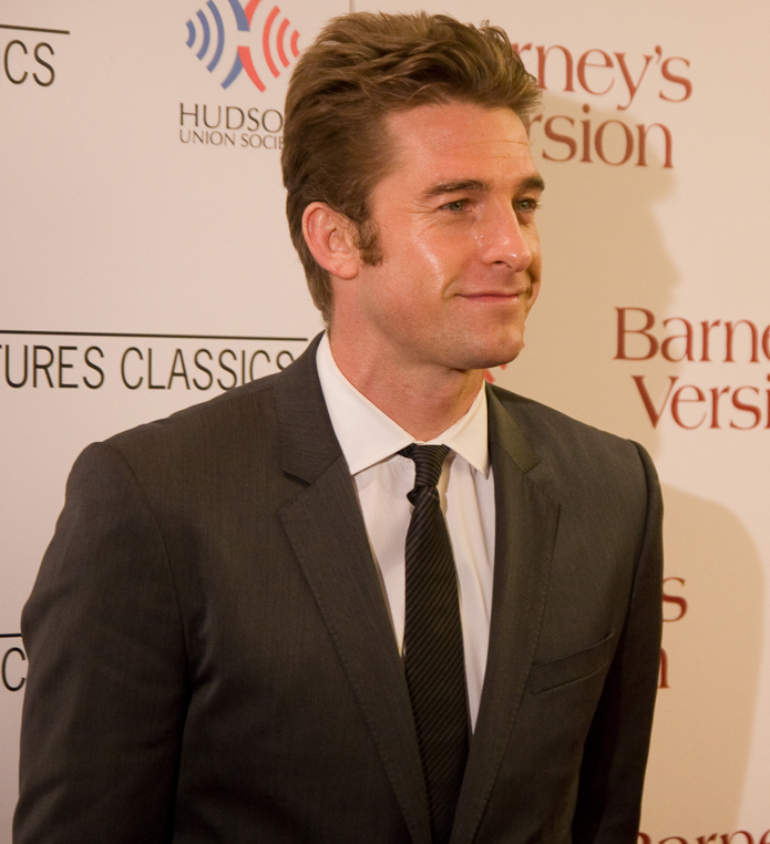 Scott Speedman at the New York film premiere of Barney's Version in January 2011.